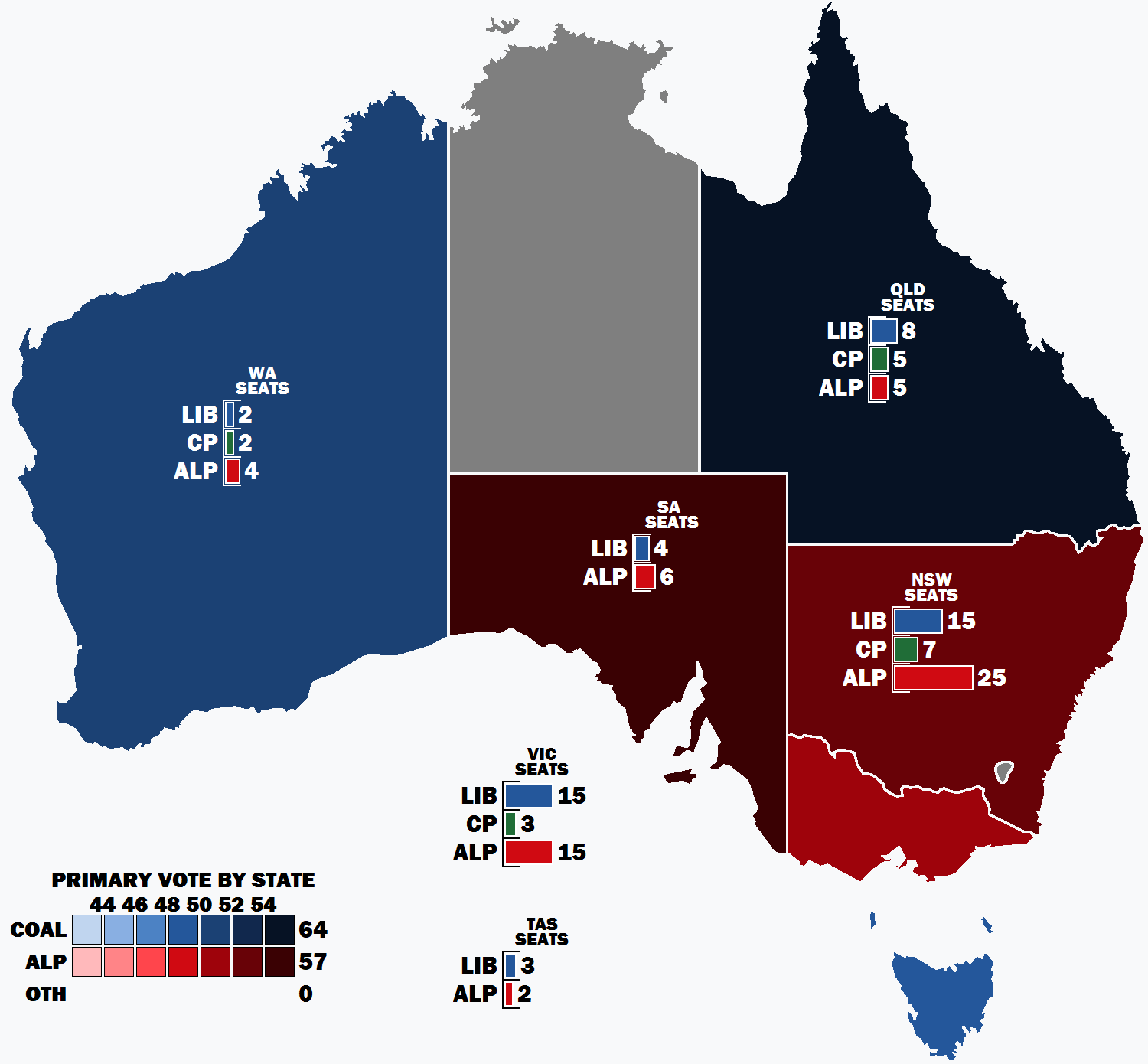 Result of the primary vote by state in the 1954 Australian federal election.